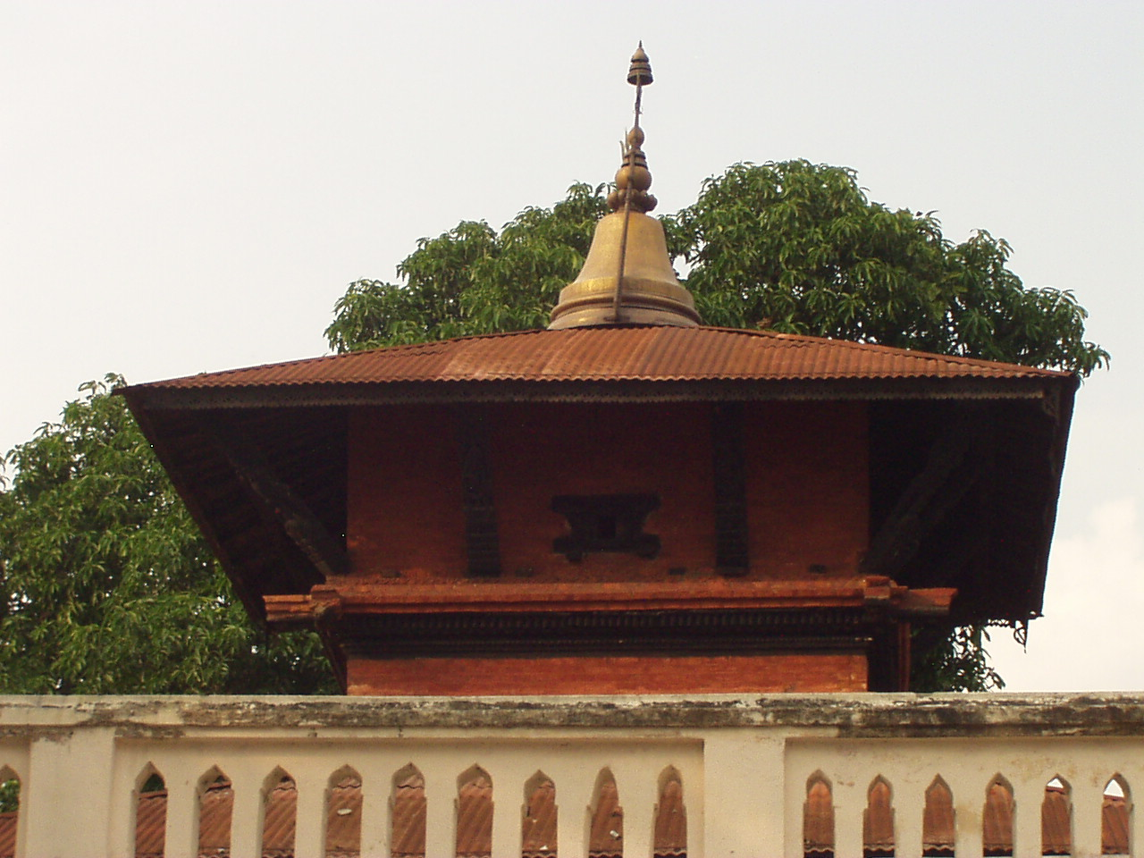 Shiva Temple in Nepali Architecture, Hajipur (Bihar)